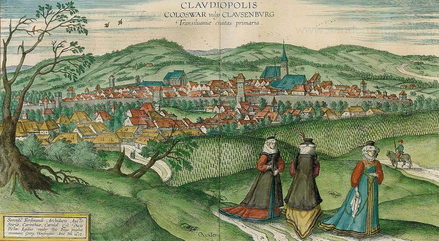 17th century view of Cluj-Napoca. After a painting by Egidius van der Rye, communicated to Braun & Hogenberg by Joris Hoefnagel.